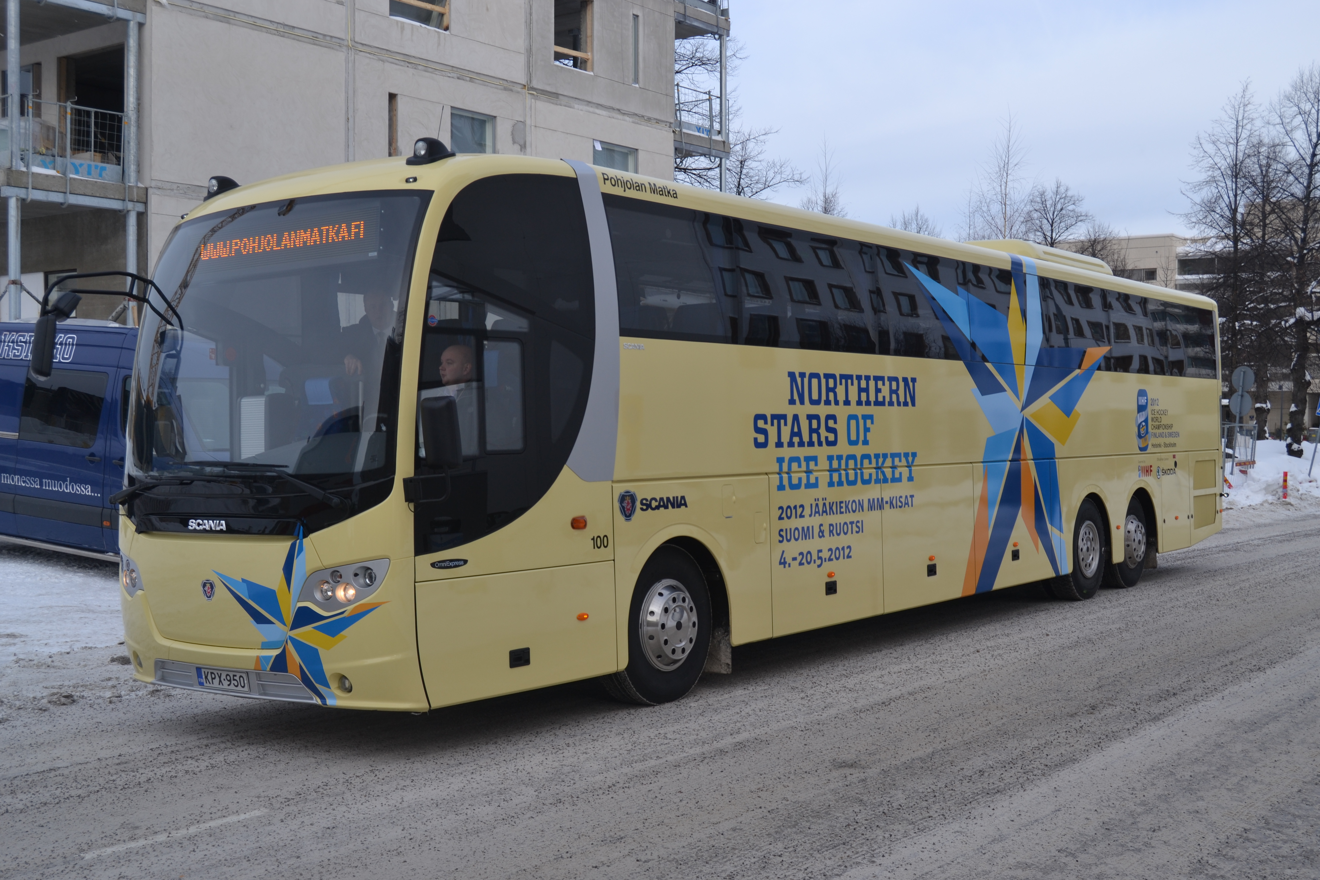 Pohjolan Matka Scania OmniExpress 360 bus in IIHF World Championship livery in Jyväskylä, Finland